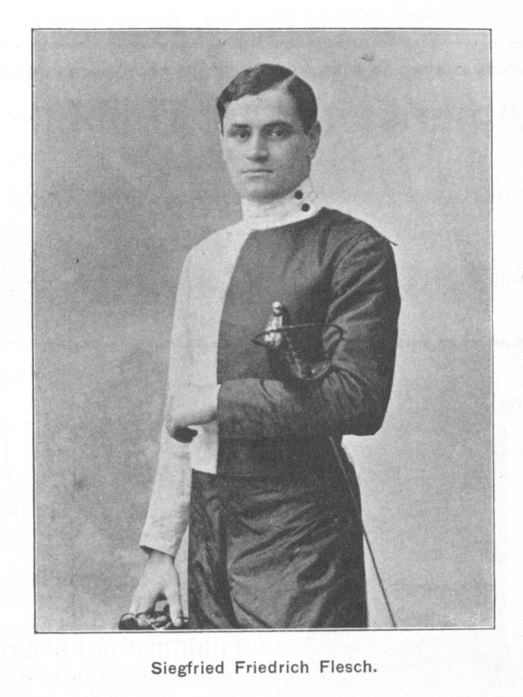 Photo of Siegfried Flesch (1872-1939), Austrian fencer.